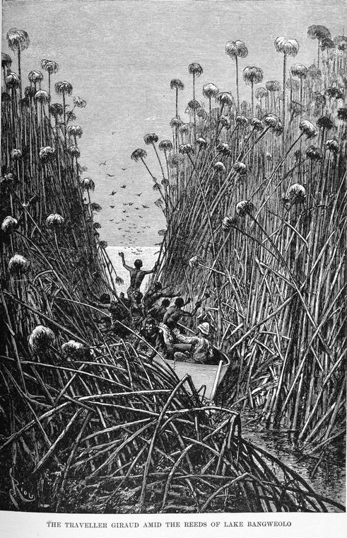 The traveller Giraud amid the reeds of Lake Bangweolo